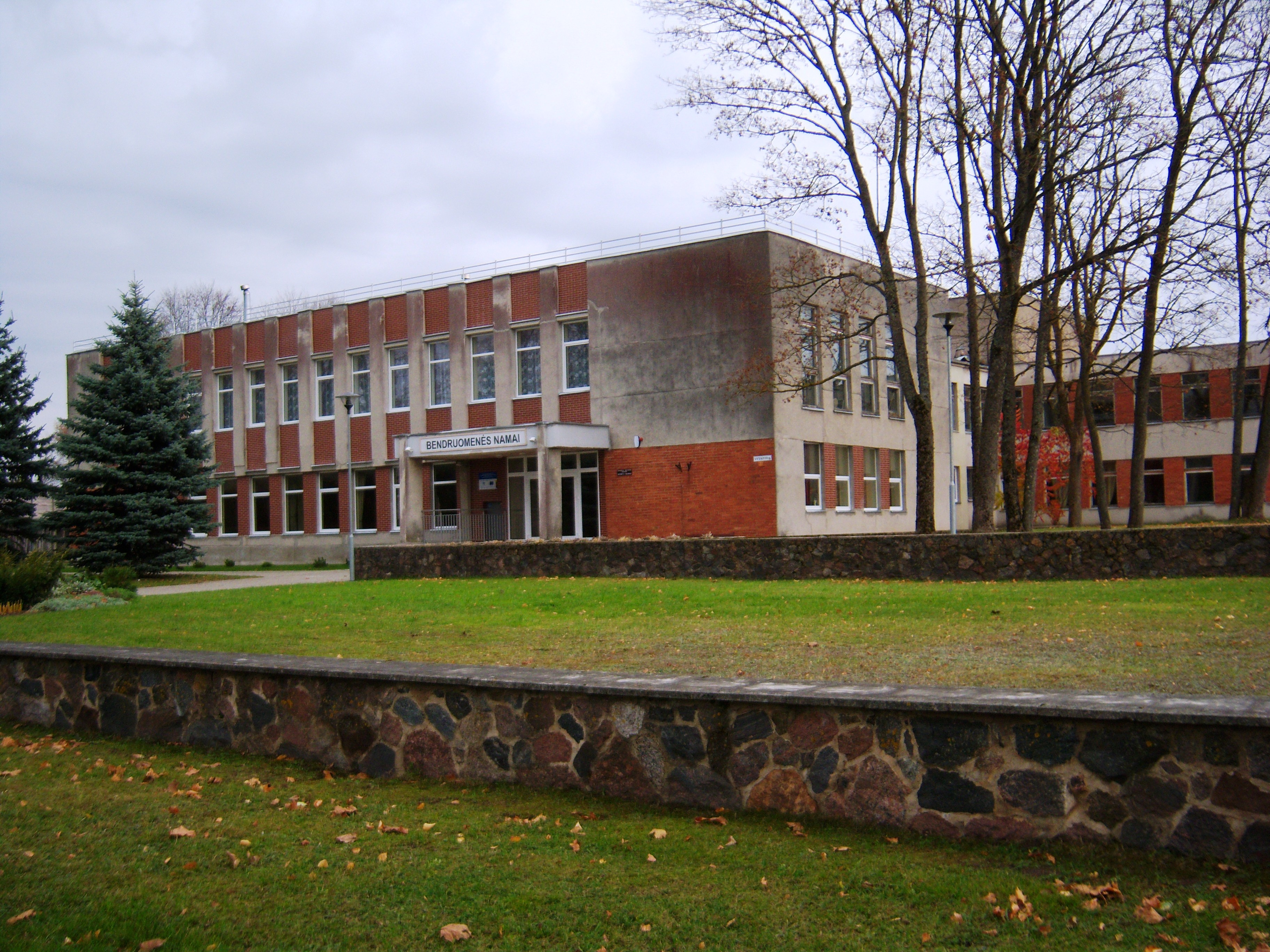 Community House in Viešintos, Lithuania